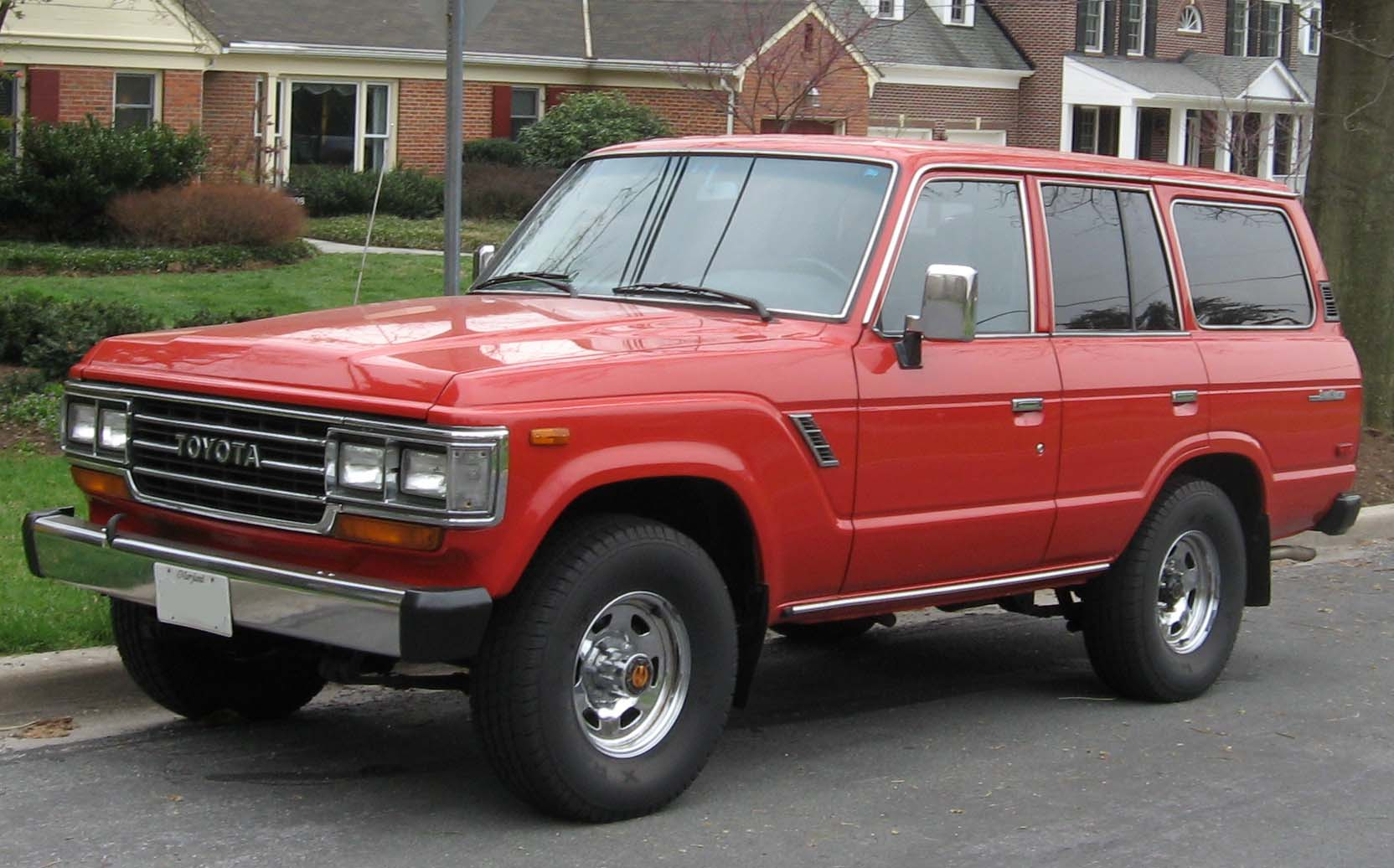 1980-1989 Toyota Land Cruiser photographed in USA. ( FJ62LG )